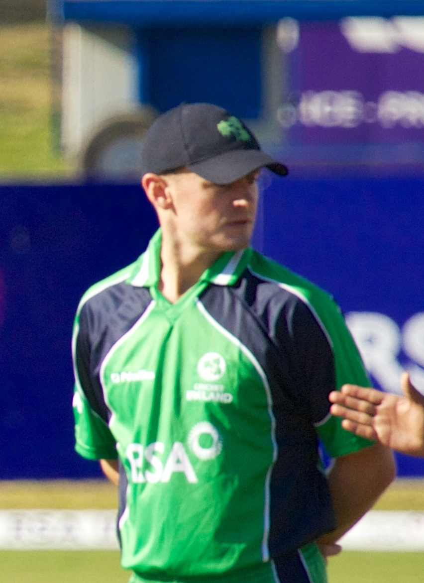 Captains of the respective sides, Eoin Morgan of England and William Porterfield of Ireland, being interviewed before the two teams played a One Day International at Malahide in September 2013